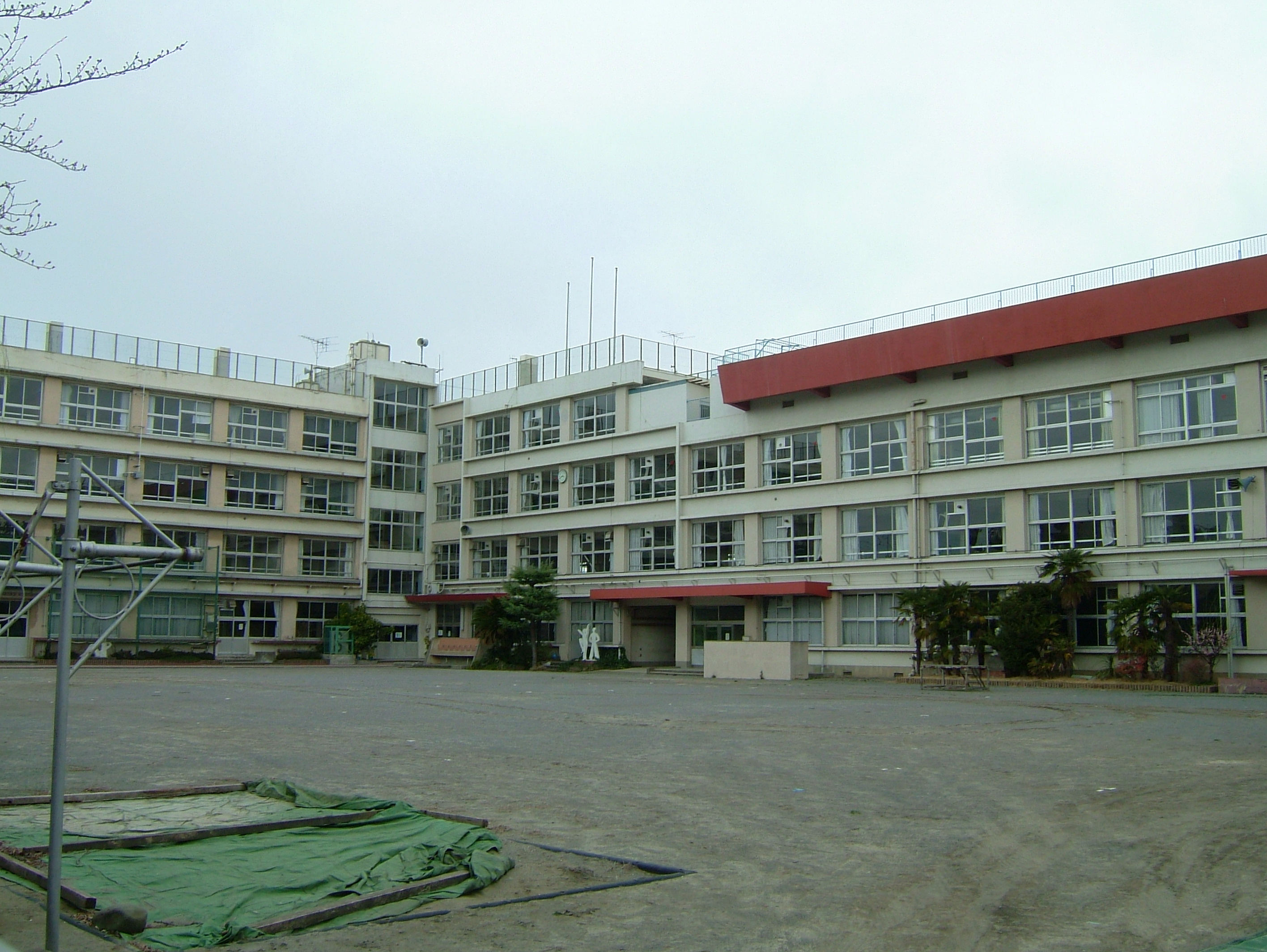 The second junior high school of the Adachi city facilities, Adachi city （word）, Tokyo metro , Japan.